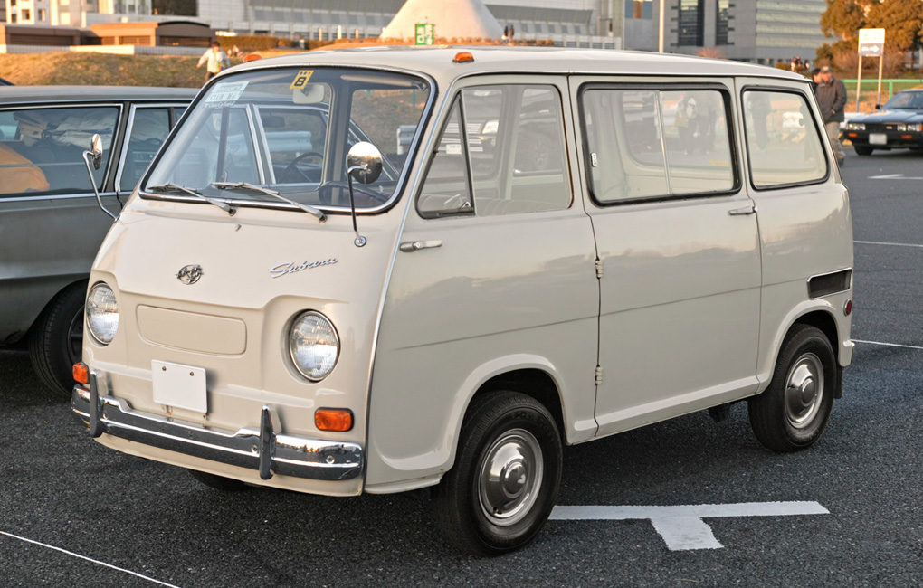 Second generation Subaru Sambar 360 Van